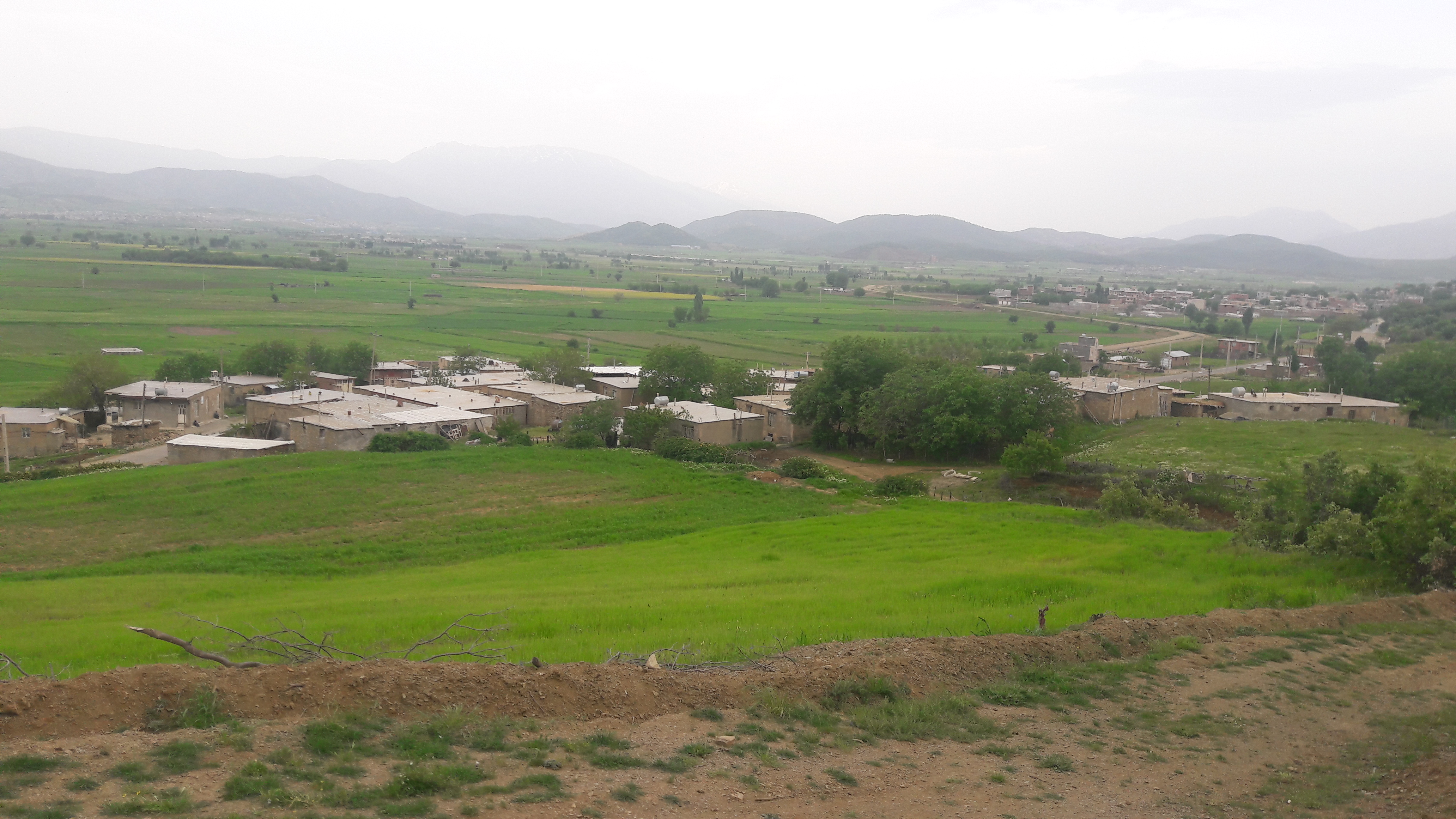 Kalkeh Jan